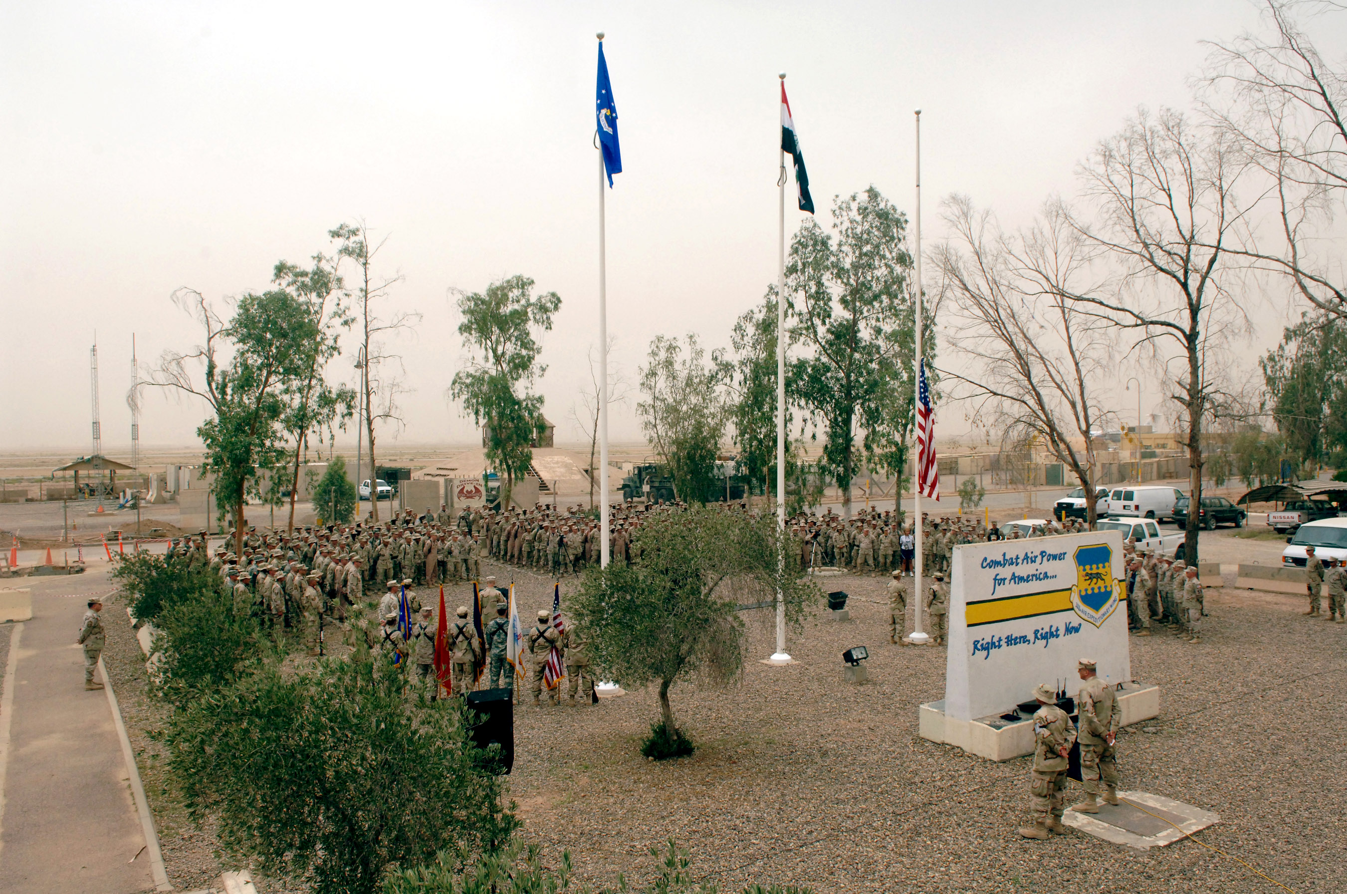 Balad Airmen honor fallen on Memorial Day: More than 300 Airmen from the 332nd Air Expeditionary Wing share a moment of silence in front of the Fallen Airman Memorial May 28 at Balad Air Base, Iraq. Thirty-three Airmen's names are inscribed on the memorial, including the wing's most recent loss, Staff Sgt. John Self. The sergeant, a security forces defender with the Det. 3, 732nd Expeditionary Security Forces Squadron at Camp Liberty, Baghdad, was killed May 14 while conducting a combat patrol in the Rasheed District of Baghdad.